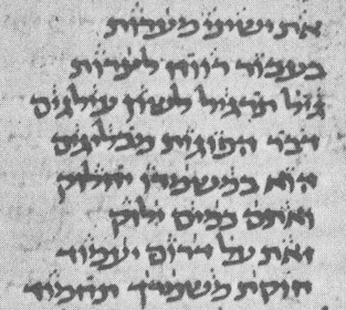 Example of Palestinian vocalization, detail of